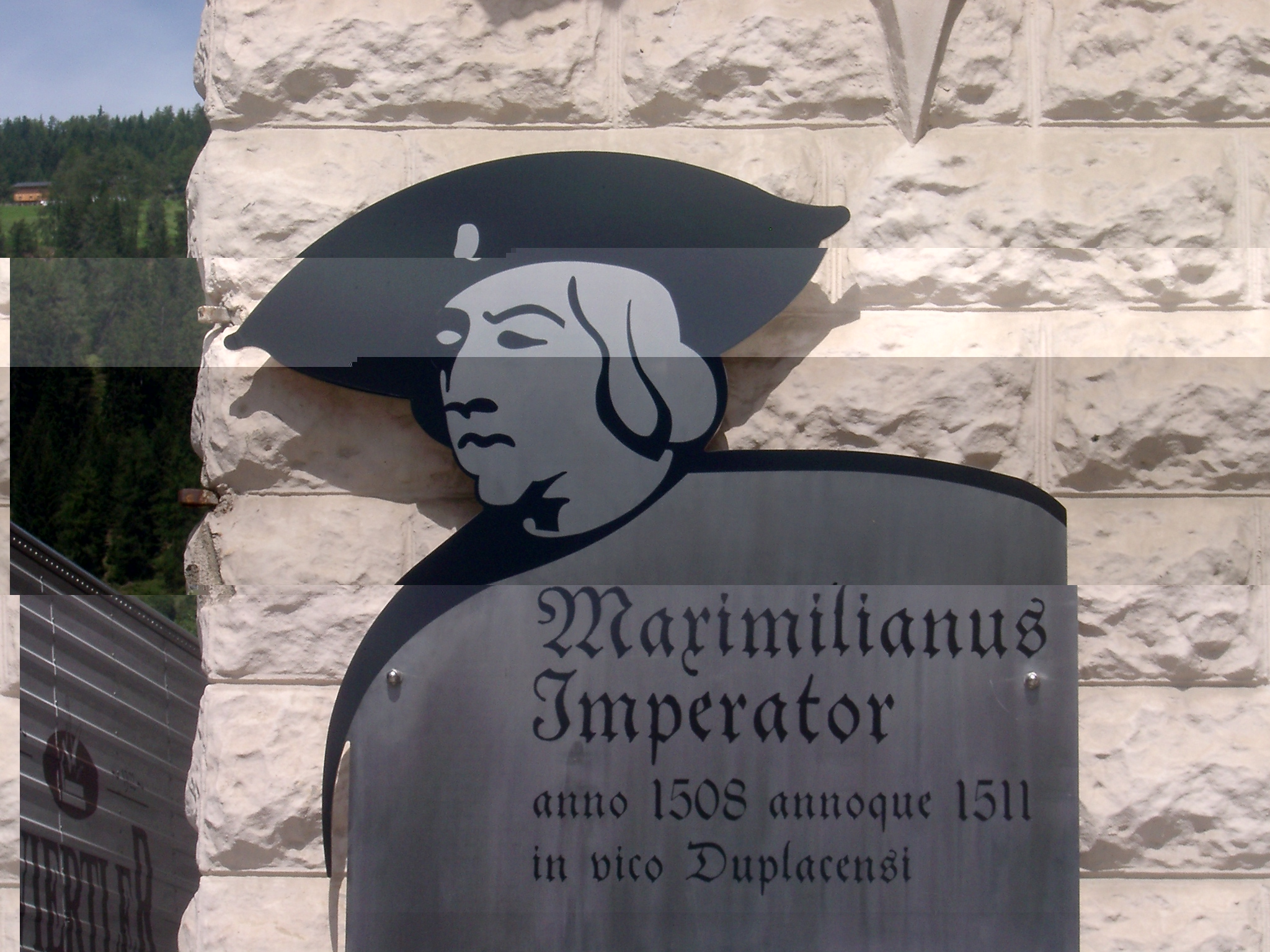 Table in Toblach in Latin indicating emperor Maximilian I was here.